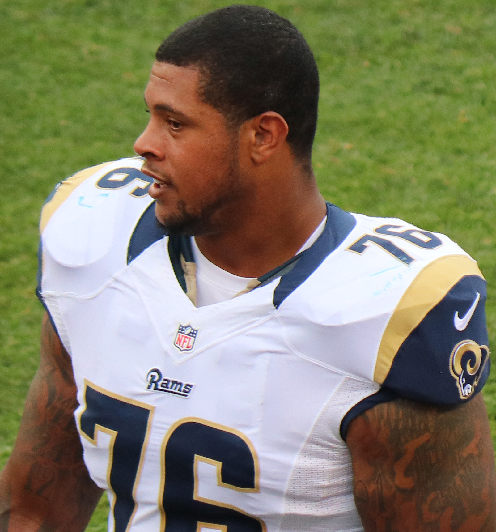 Rodger Saffold, a player on the National Football League.